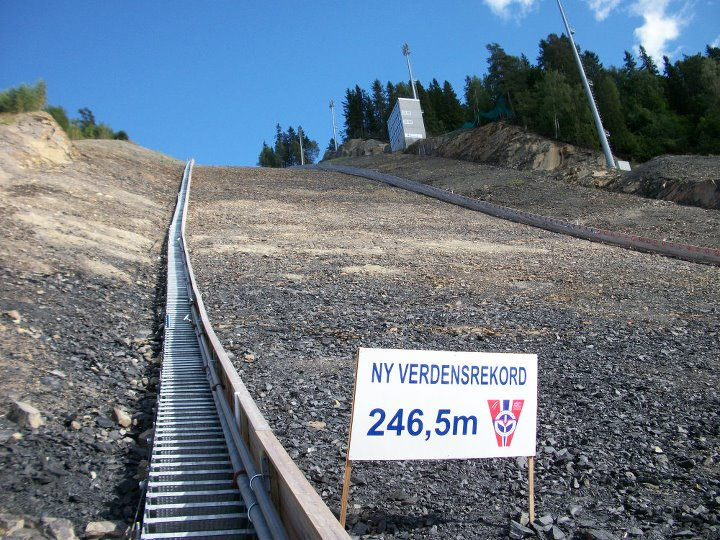 World SkyFly Record landing point at Vikersundbakken. Taken during a vacation visit to Vikersund, Norway